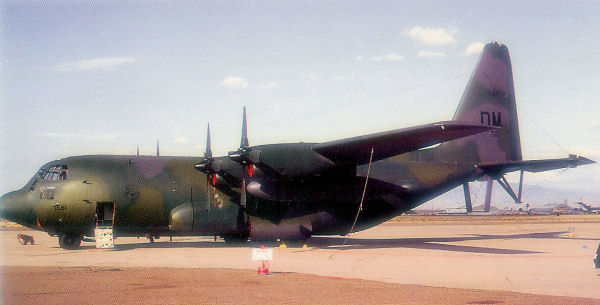 EC-130H of the 355th Tactical Fighter Wing, Davis Monthan AFB, AZ